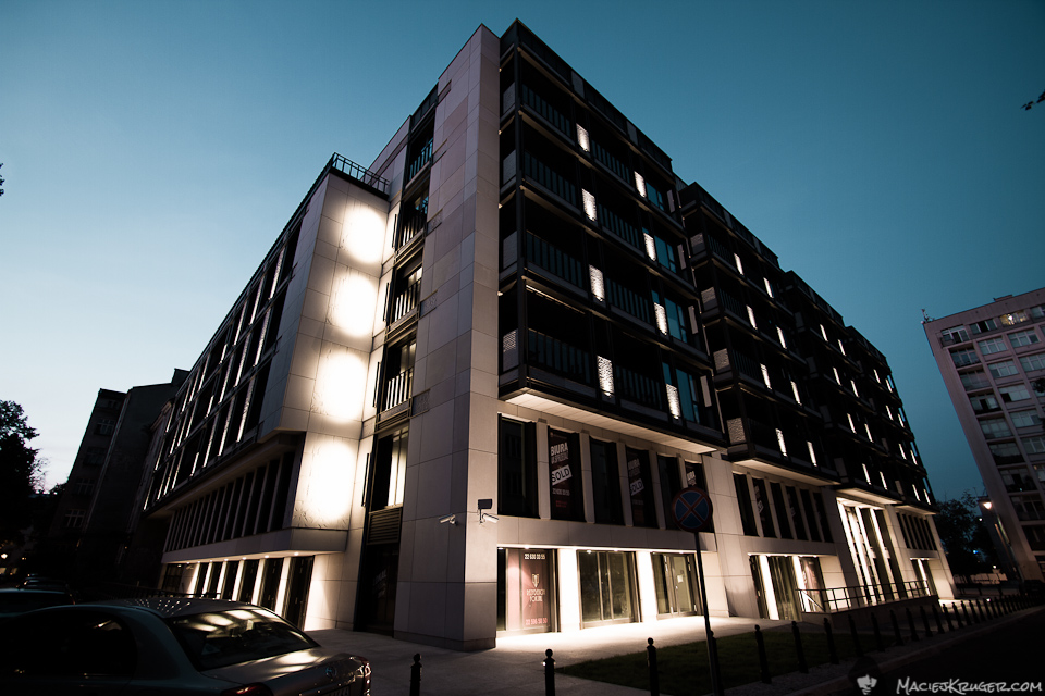 Foksal Residence - Przyboś Street and Kopernik Street corner